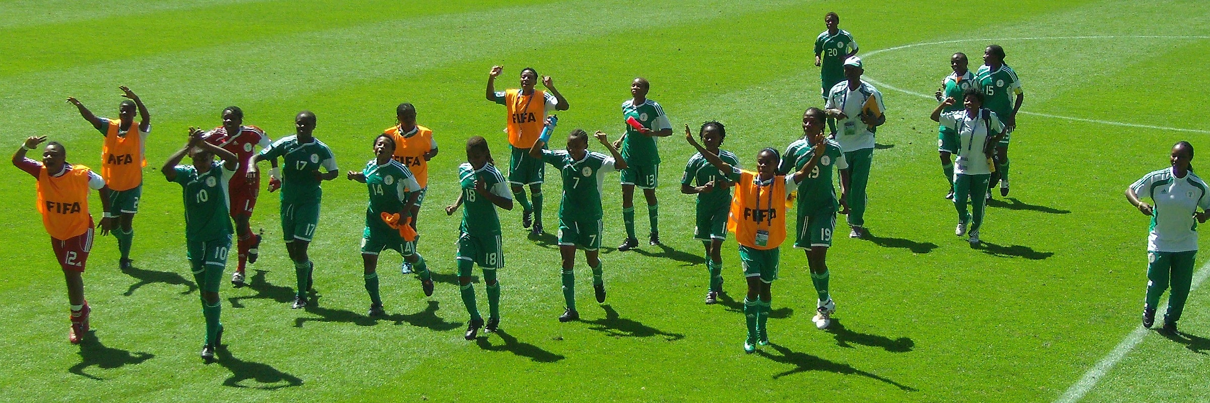 USA-Nigeria at 2010 FIFA U-20 Women's World Cup in Impuls Arena as “FIFA Women's World Cup Stadium Augsburg”:Nigerian Team after winning in penalties. For player names see 2010 FIFA U-20 Women's World Cup squads.